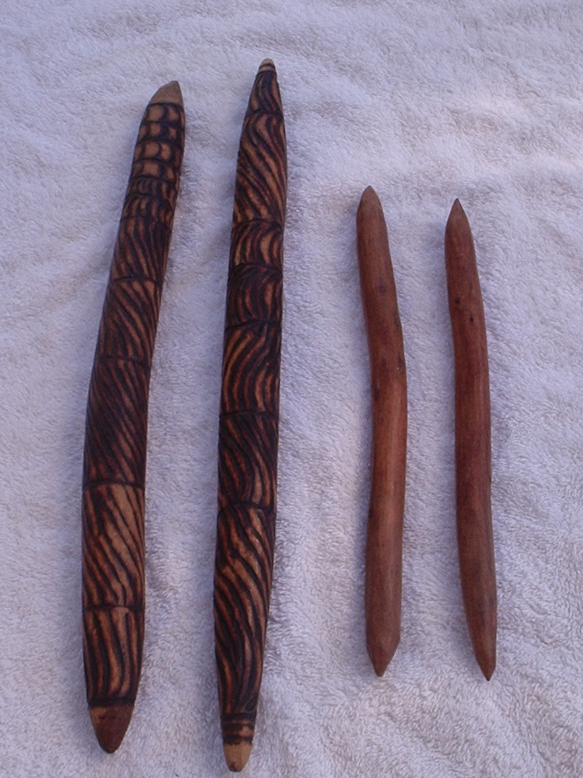 Two sets of Australian Aboriginal clapsticks, both purchased from the carver (Mary) at Ernabella Mission. The two sets have surprisingly similar tone, the decorated ones sounding about three semitones lower than the smaller plain ones. Both have been hardened in the fire during carving to produce this tone.